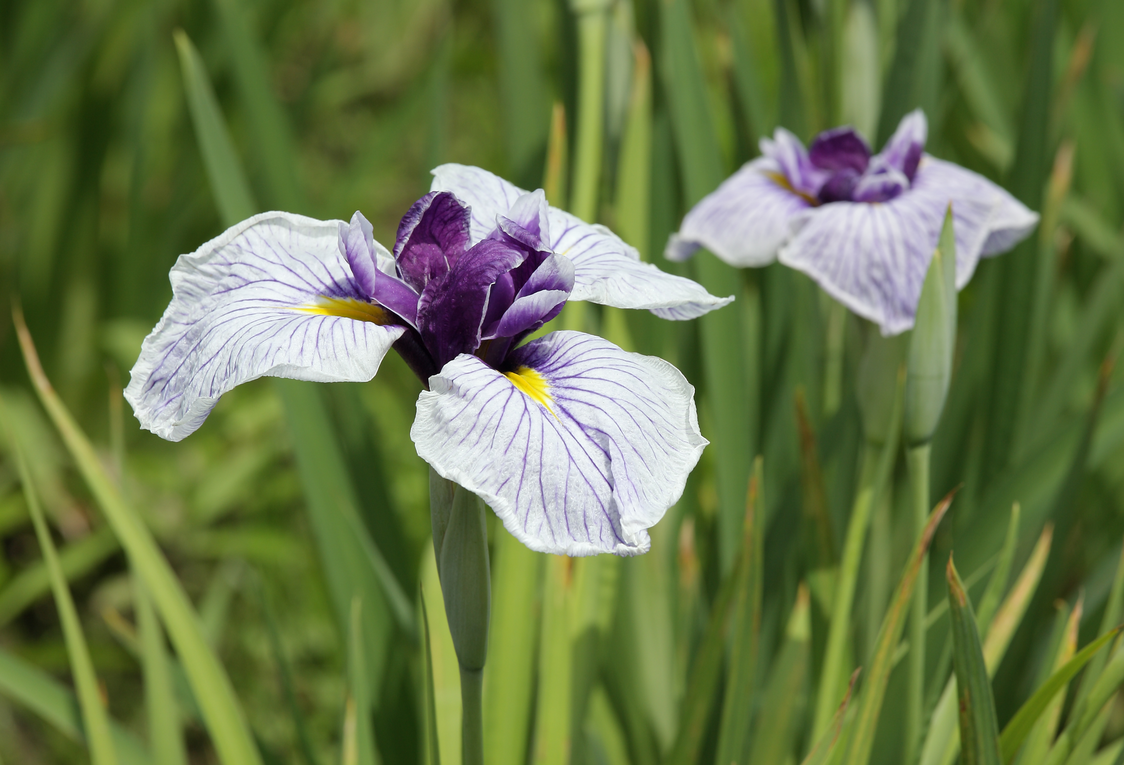 Japanese iris(Edo-nishiki)